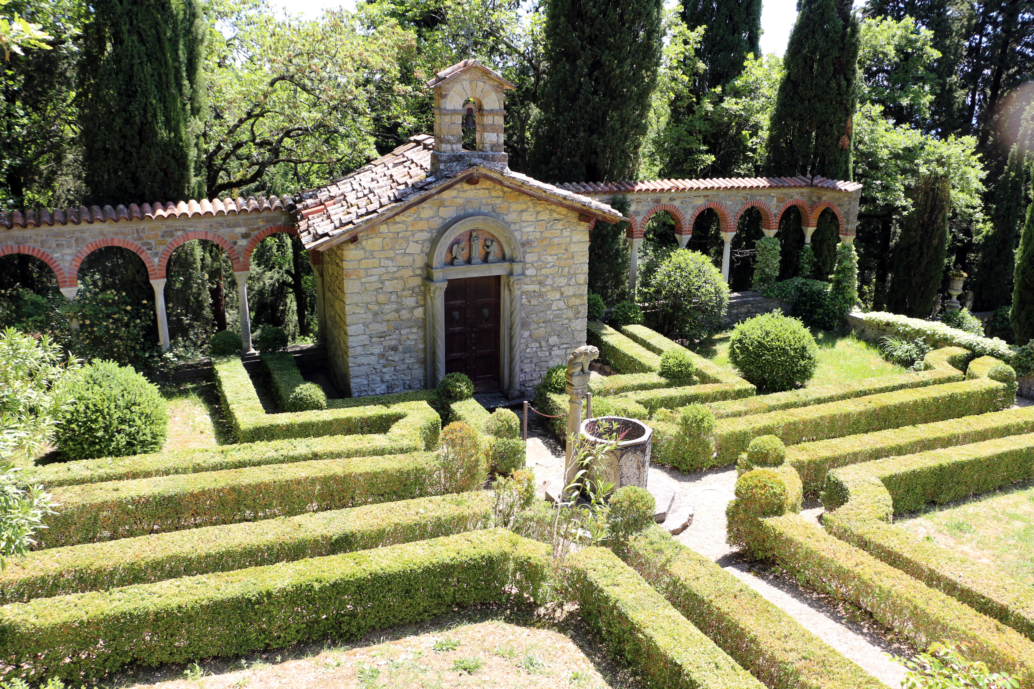 Villa Peyron di Fontelucente - Park